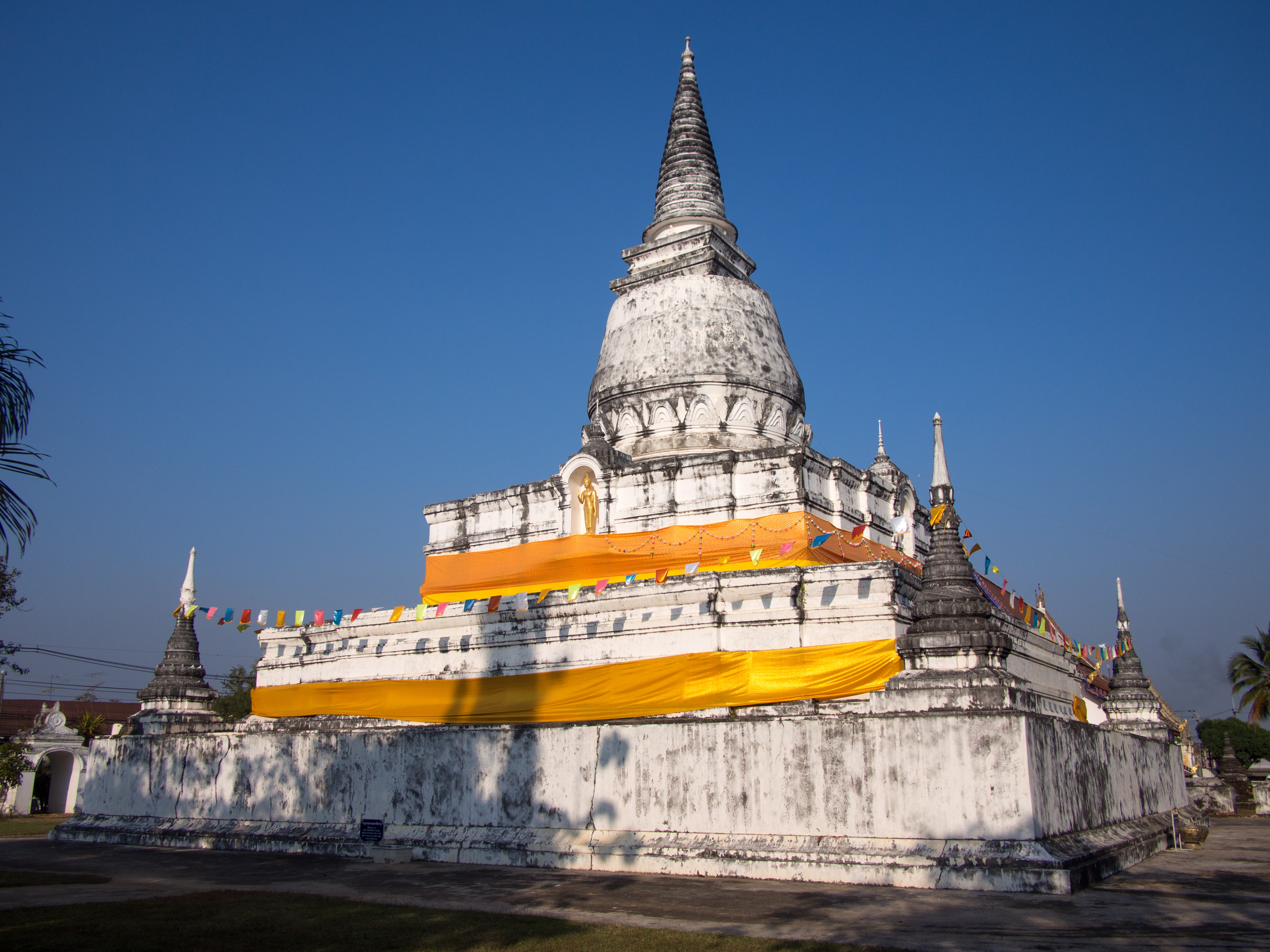 The chedi of Wat Phra Borom That Thung Yang